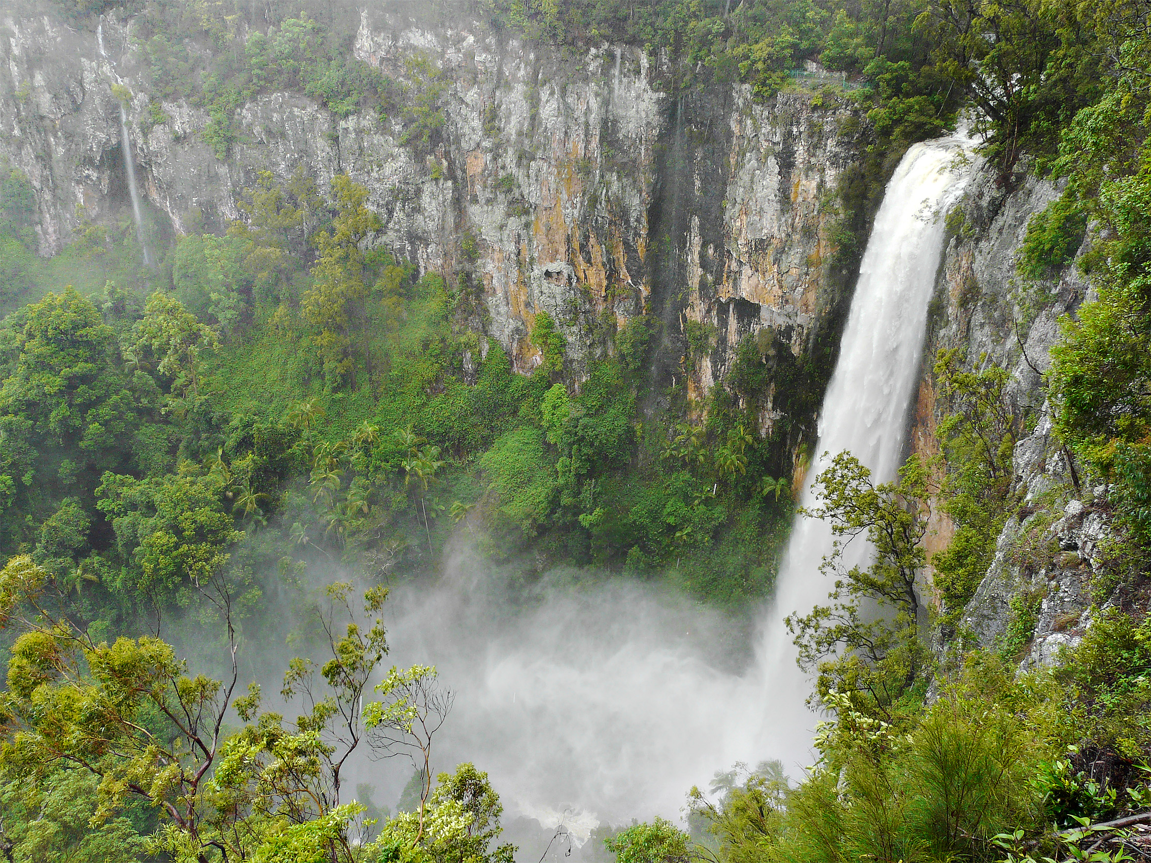 Purlingbrook Falls in Springbrook National Park; an edit of Image:Purlingbrook Falls.jpg